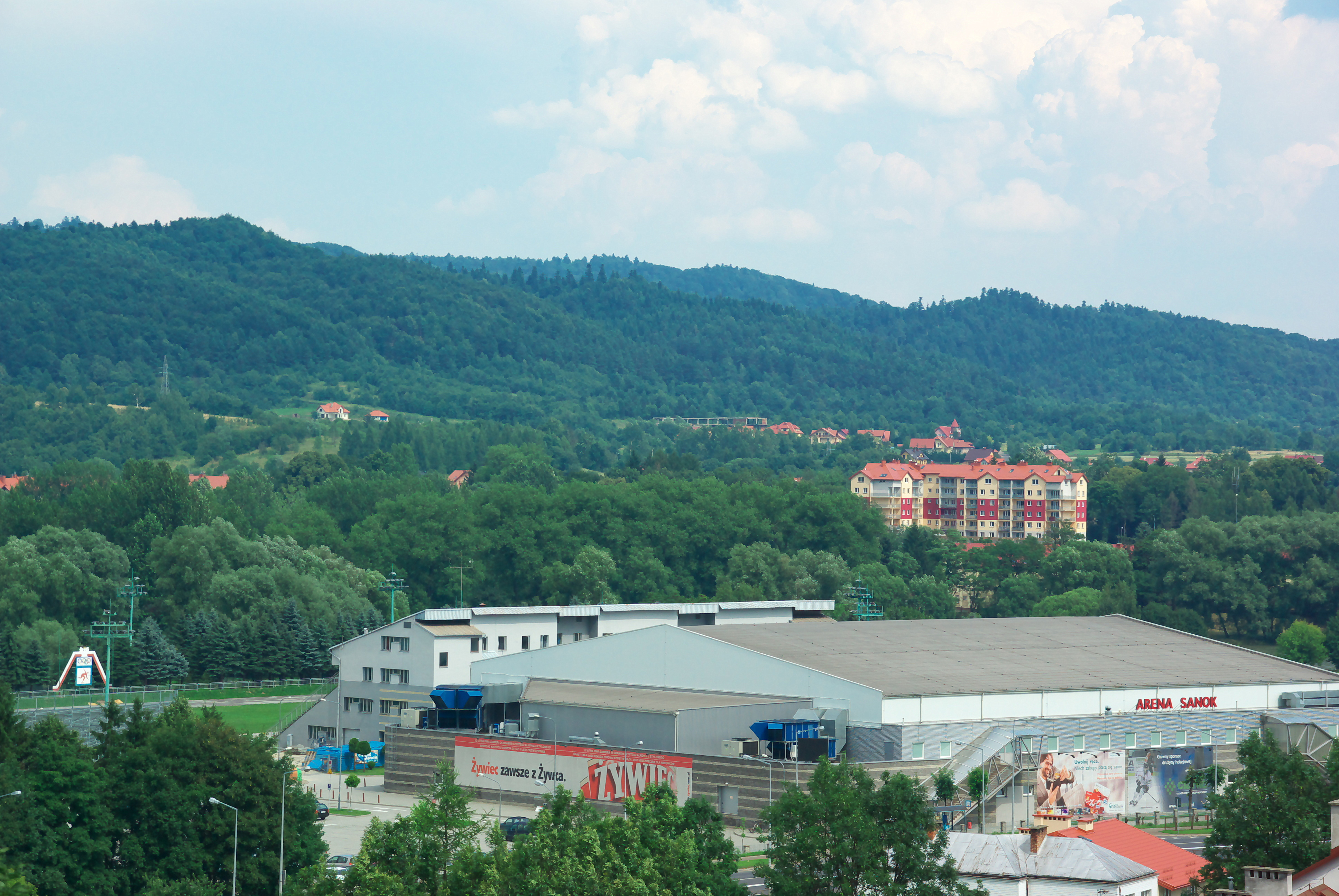 Arena Sanok - view from downtown Sanok (June 2011)